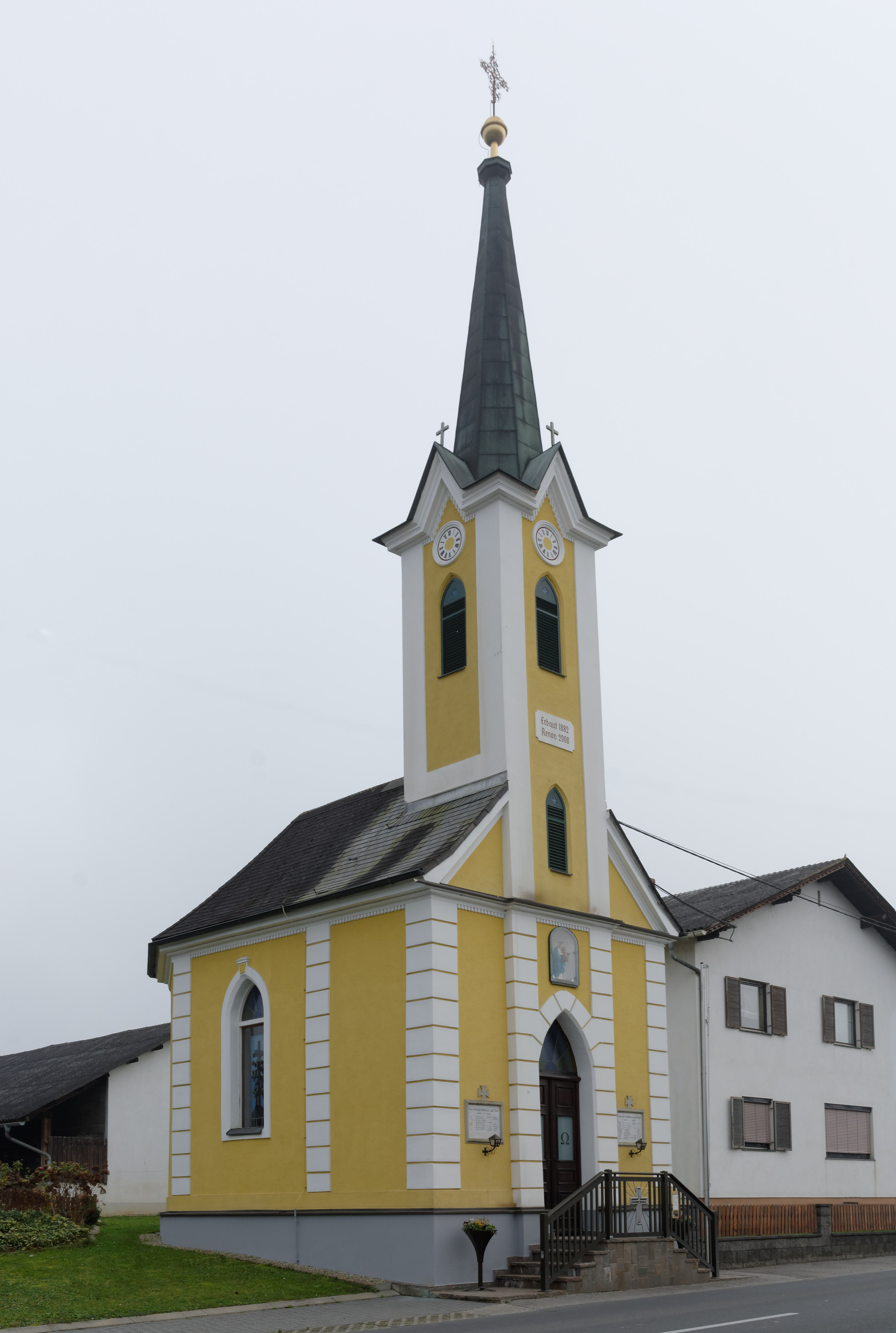 Chapel in Ragnitz, Styria, Austria